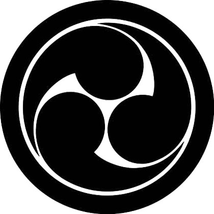 Maruni Hidari Mitsudomoe